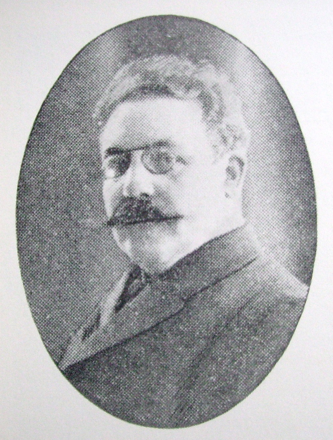 Picture of Leon Ljunglund, Swedish journalist